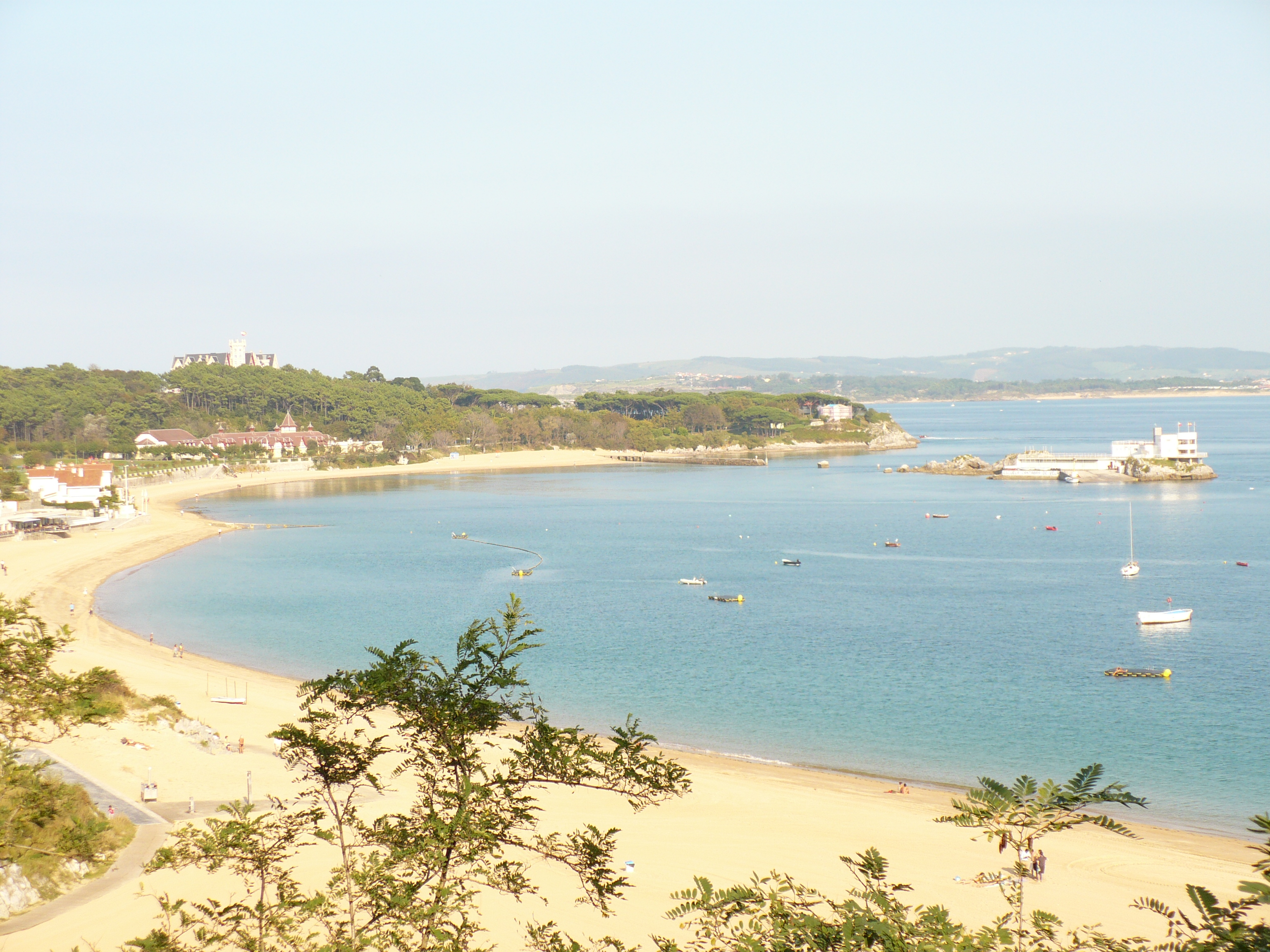 Bay of Santander (Cantabria): La Magdalena and Bikinis beaches, La Magdalena peninsula and Torre Island.